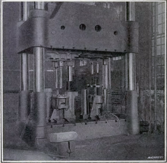 Producing shrapnel forgings in a 750 tonnes hydraulic forging press